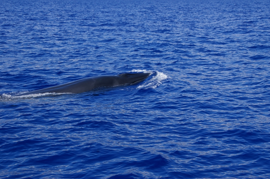 A Bryde's whale (Balaenoptera brydei/edeni) off Madeira, showing its characteristic rostral ridges.